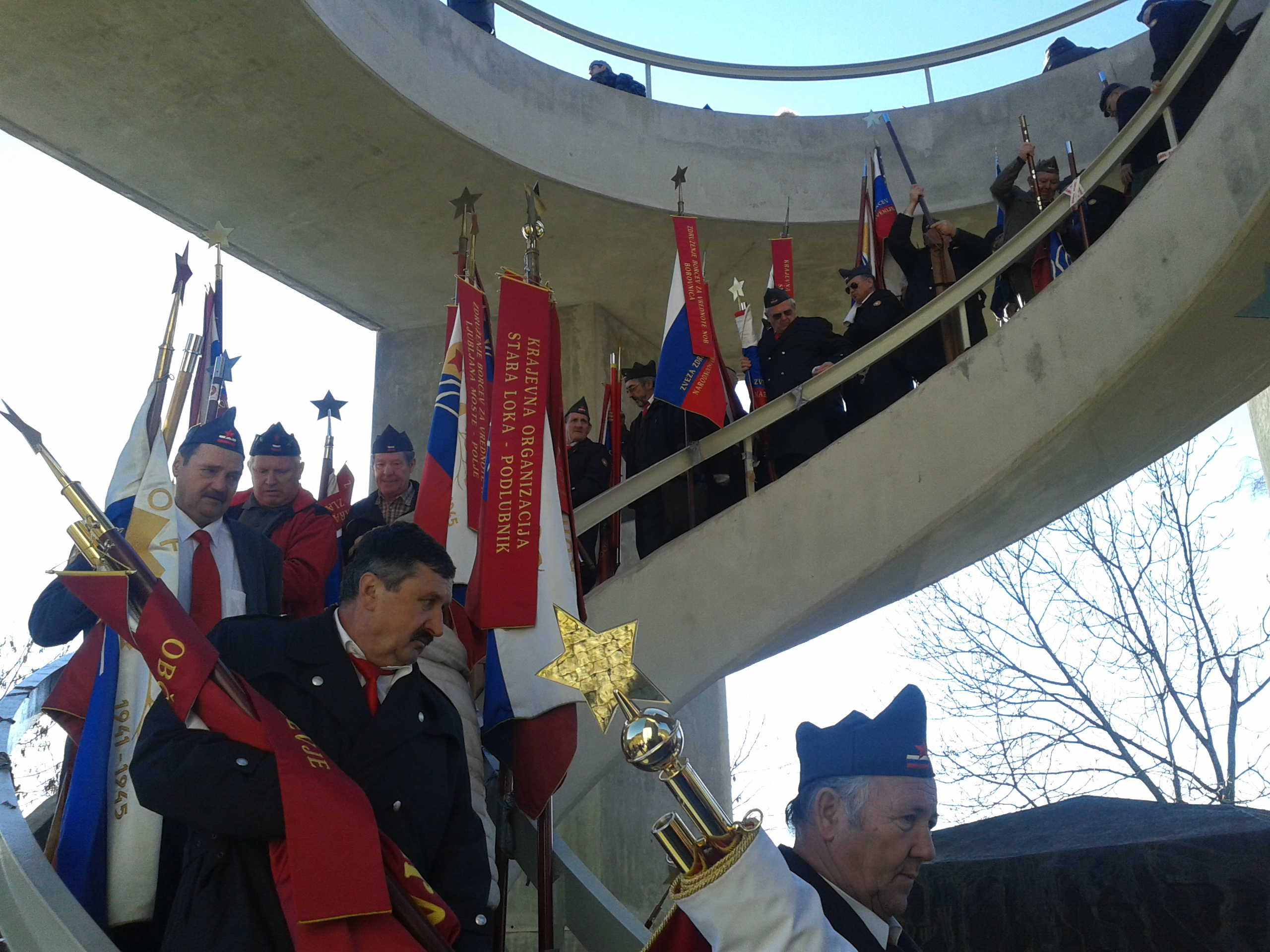 Commemoration at Monument to the Battle of Dražgoše, January 2014